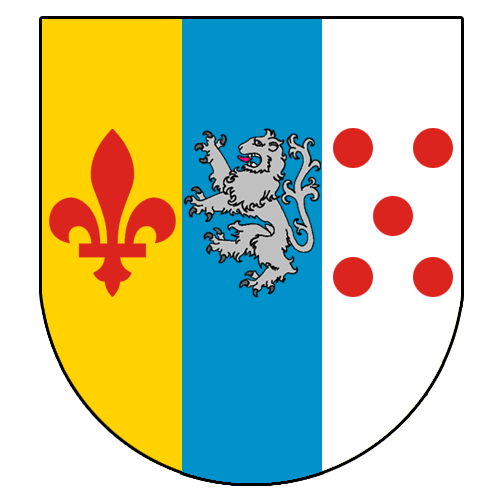 Coat of Arms for Spanish surname Quintero. Three bands of equal with, a yellow band with a red fleur-de-lis; a blue band with a rampant lion, and a white band with five red circles representing a "fifth".